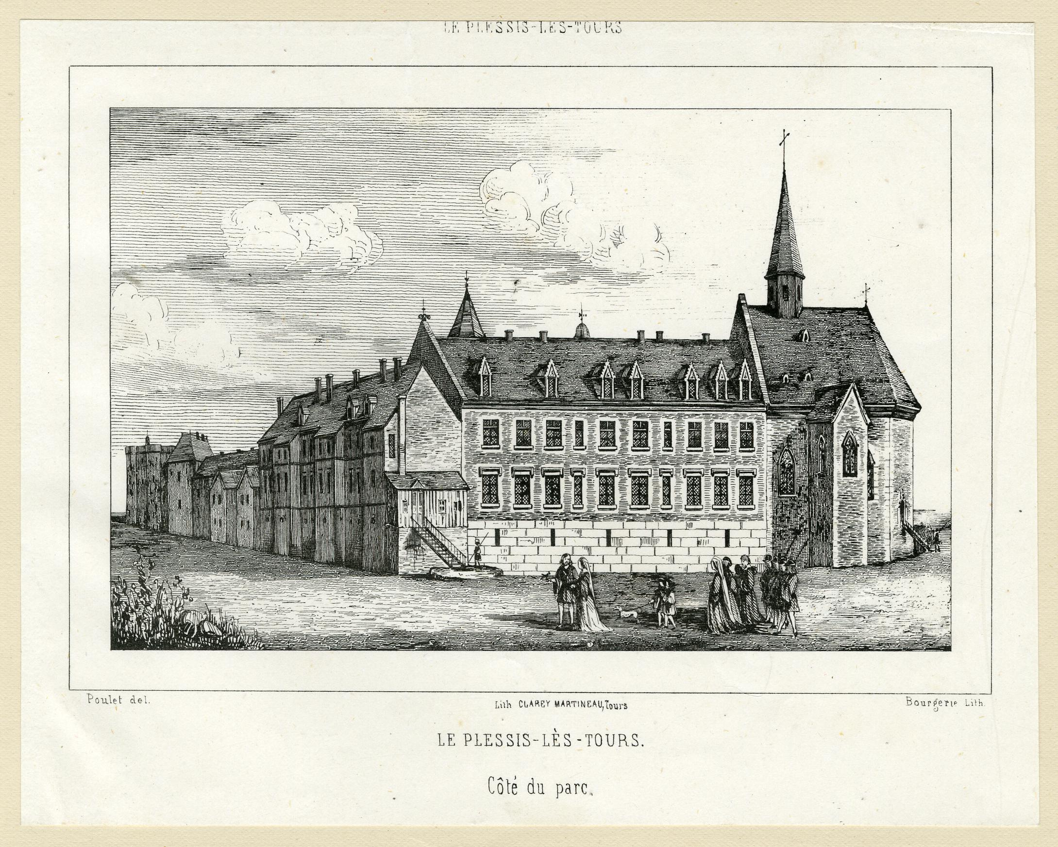 View of the Royal Château de Plessis-lèz-Tours, from the park, with figures on the foreground walking towards the left, including two children with a dog; illustration to 'Tableaux chronologiques de l'histoire de Touraine' (Tours: Clarey-Martineau, 1841). Lithograph